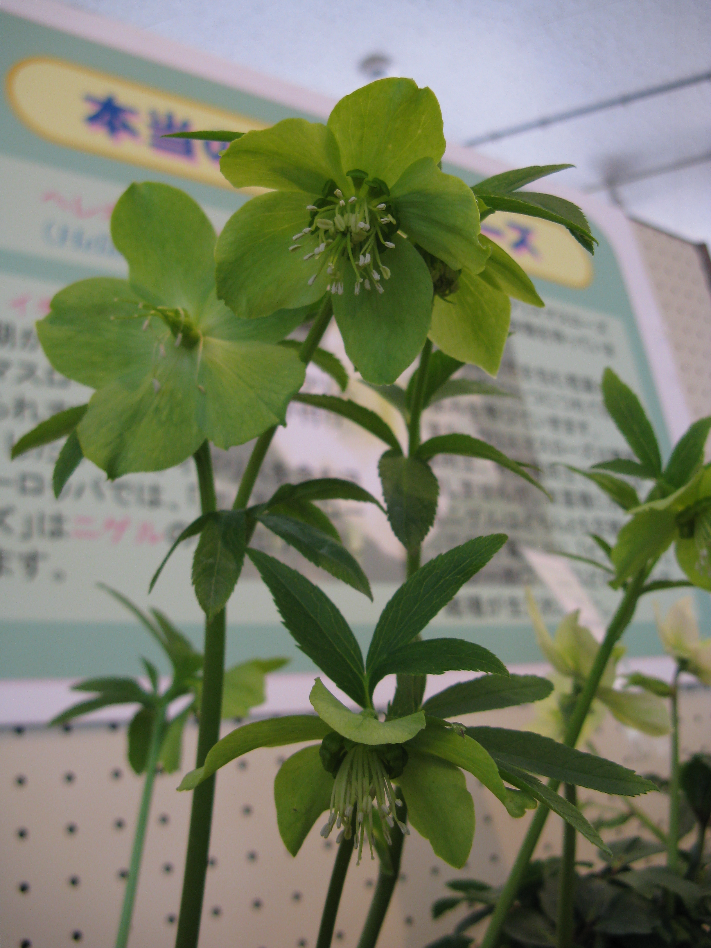 Helleborus cyclophyllus Place:Osaka Prefectural Flower Garden,Osaka,Japan